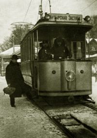 Moscow Tran, 1899